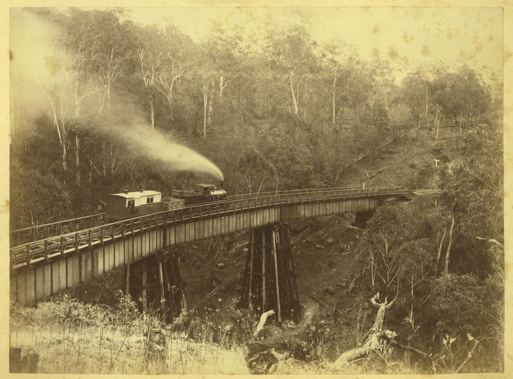 Locomotive, coal wagon and carriage on the bridge in Main Range.